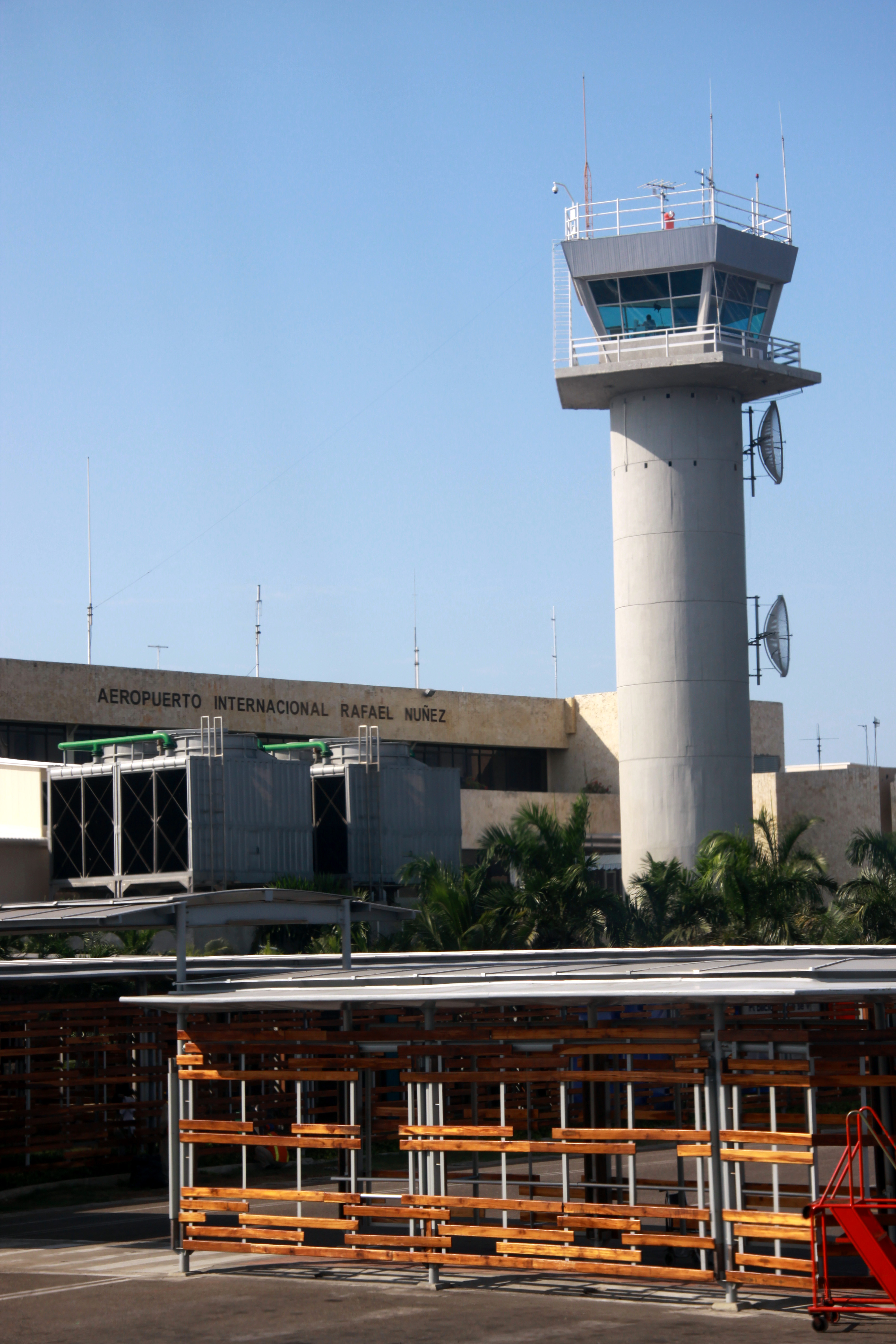 Please, have this description accessible to all by translating it in different languages.